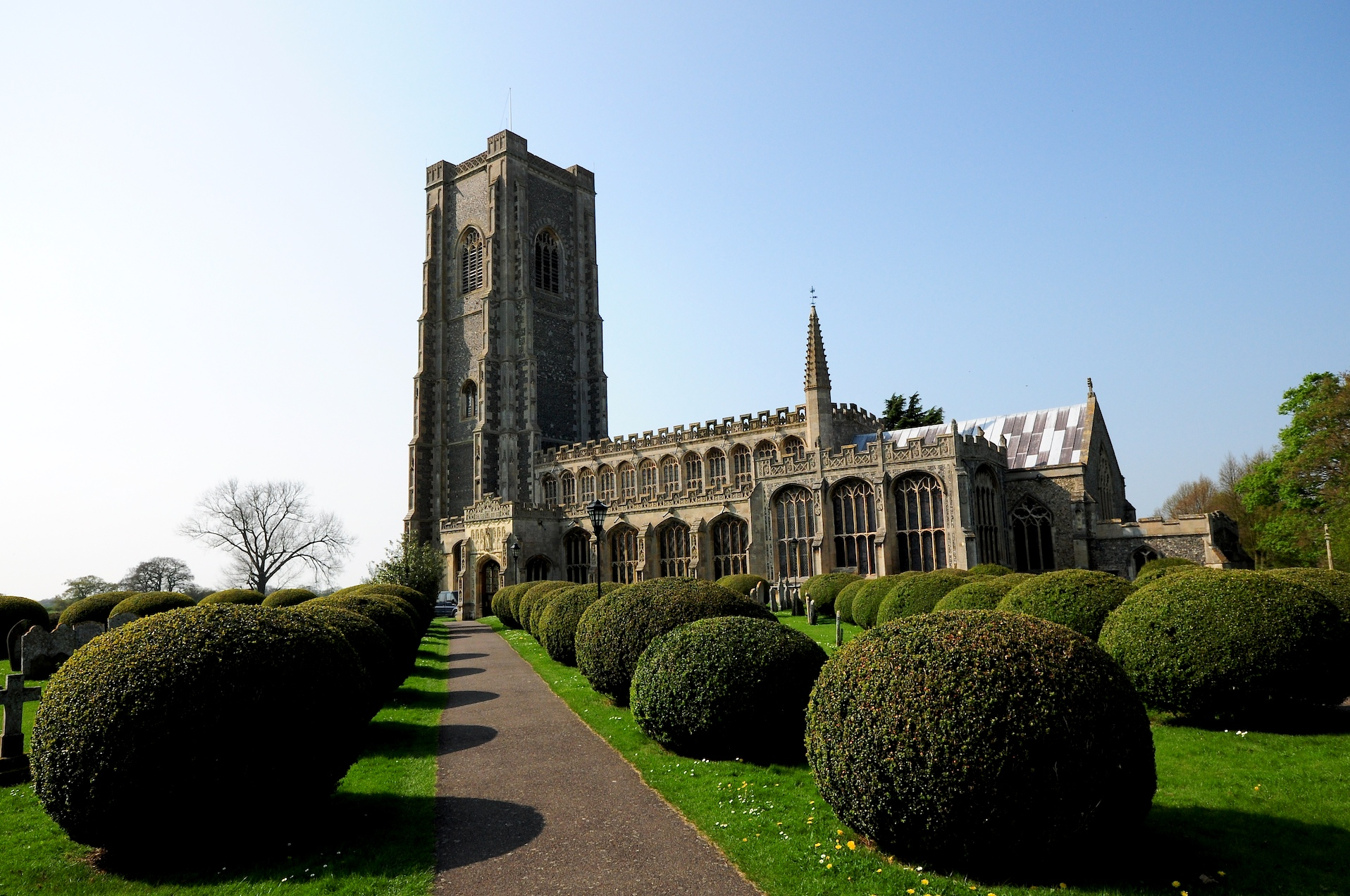 Lavenham Church, St. Peter and Paul.